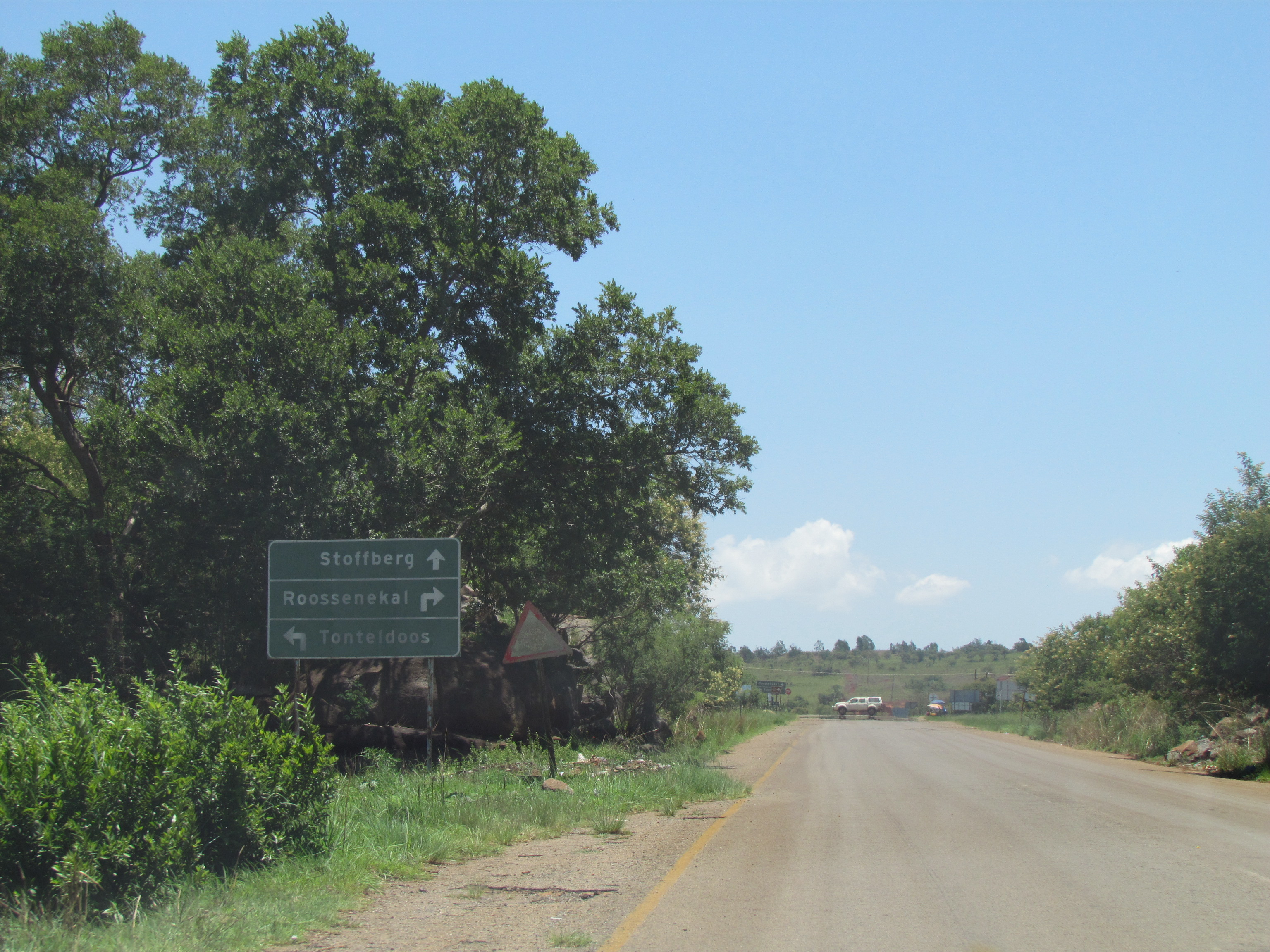 Road sign to Tonteldoos, Stoffberg and Roossenekal.